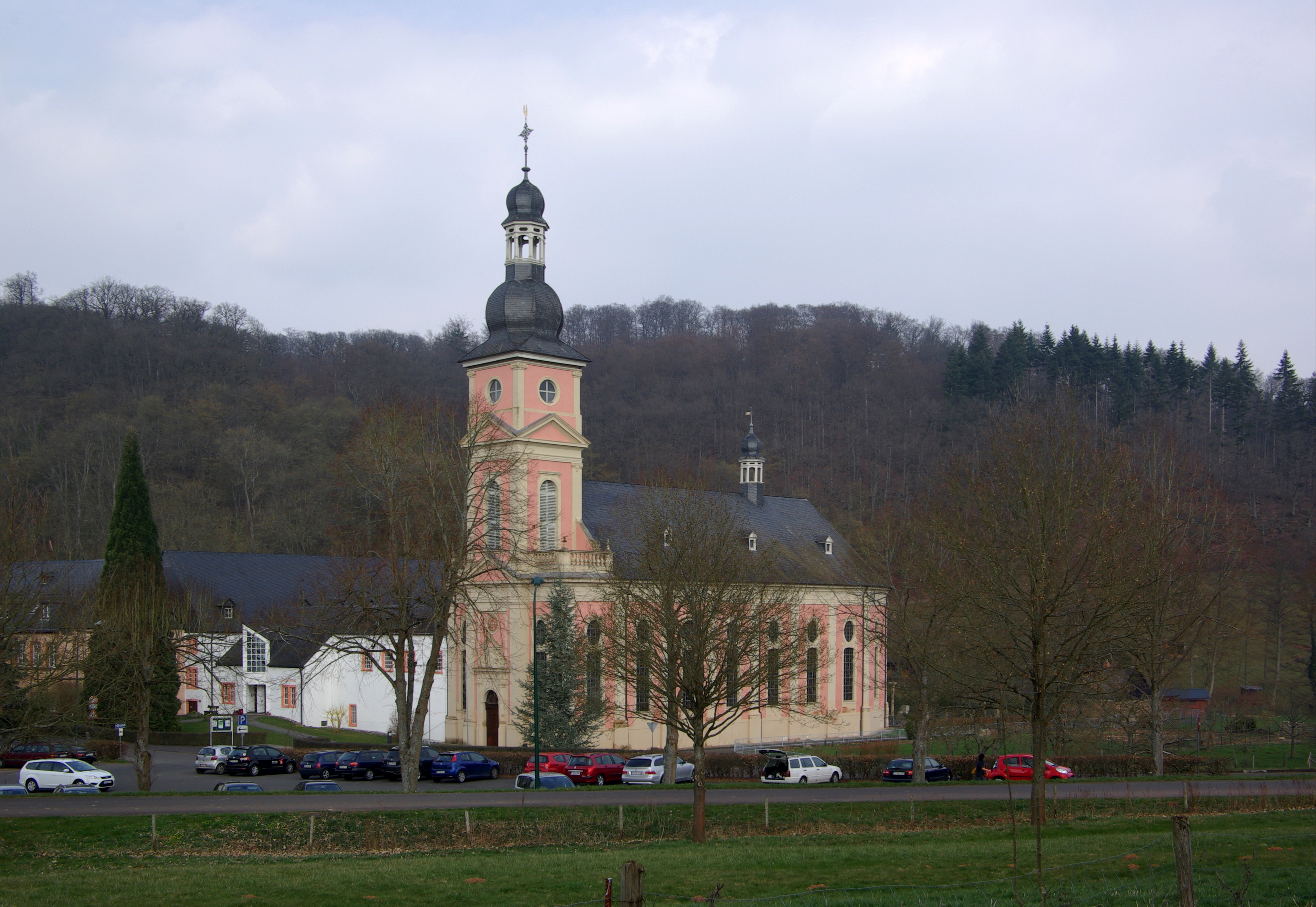 Germany, church of Springiersbach monatry